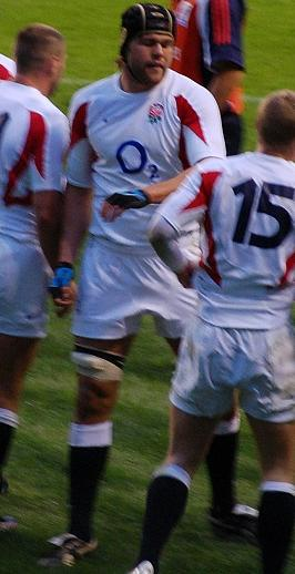 England Argentina